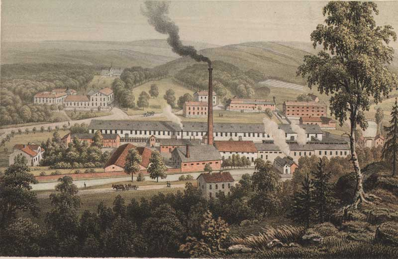 Drawing depicting Molnlycke Textile Mill in Sweden